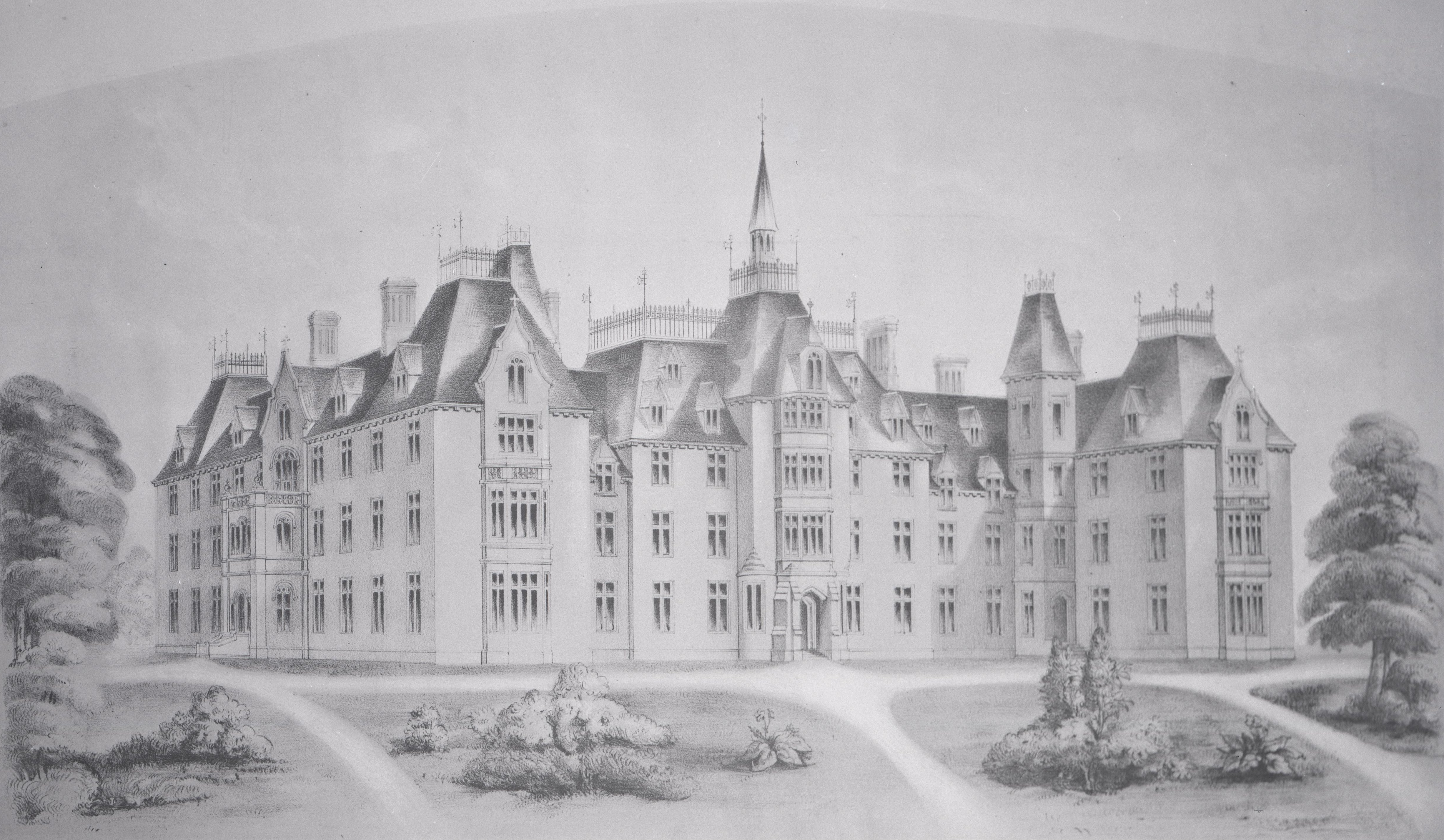 The House of Providence on Power Street, east side, between King & Queen Streets, in Toronto, Ontario, Canada. Opened by the Sisters of St. Joseph in 1857 to aid the plight of the desperately poor. The House of Providence was demolished in 1962 to make way for the Richmond Street exit from the Don Valley Parkway. By that time it was a nursing home, and its residents moved to a new facility located at St. Clair and Warden Avenues, known today as Providence Healthcare.